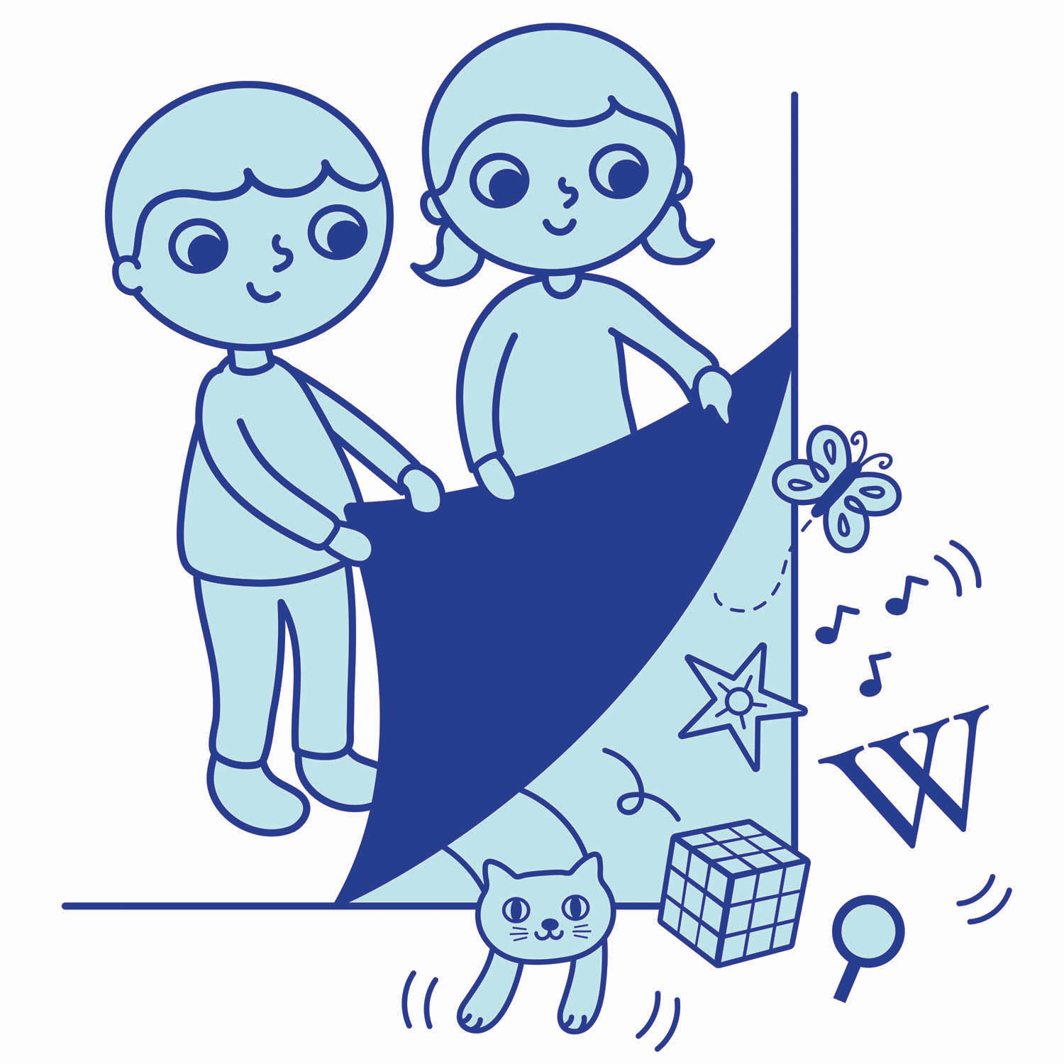 Discover Wikipedia kids' t-shirt illustration created by Adrianna Bamber for the Wikimedia Foundation.